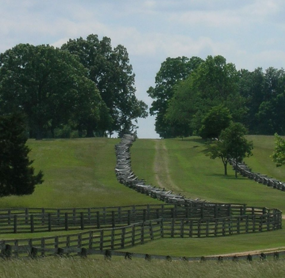 Richmond-Lynchburg_Stage_Road_derivative